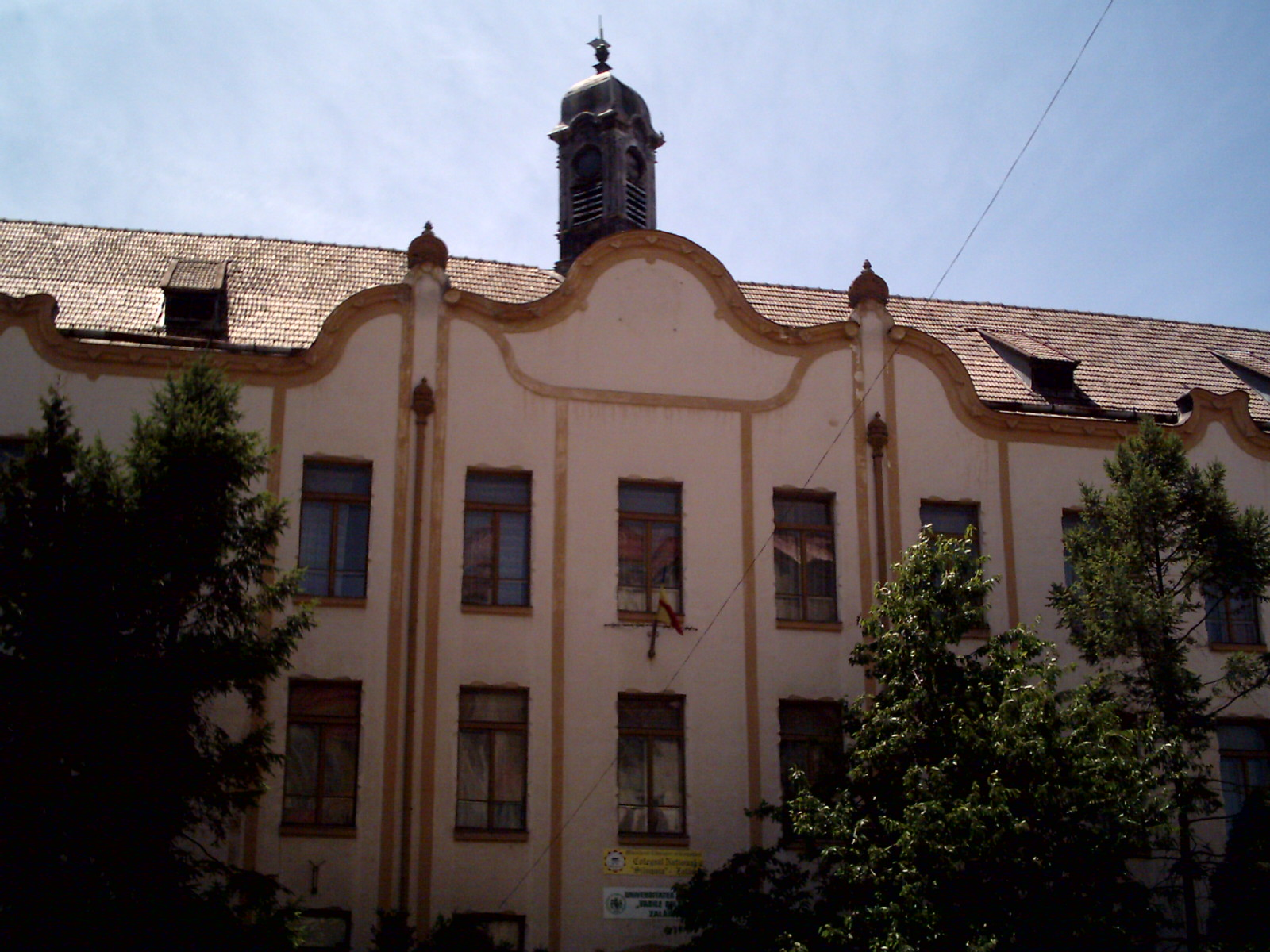 "Silvania" College Made by Morar Tamás and Balázs Szilárd ( , )